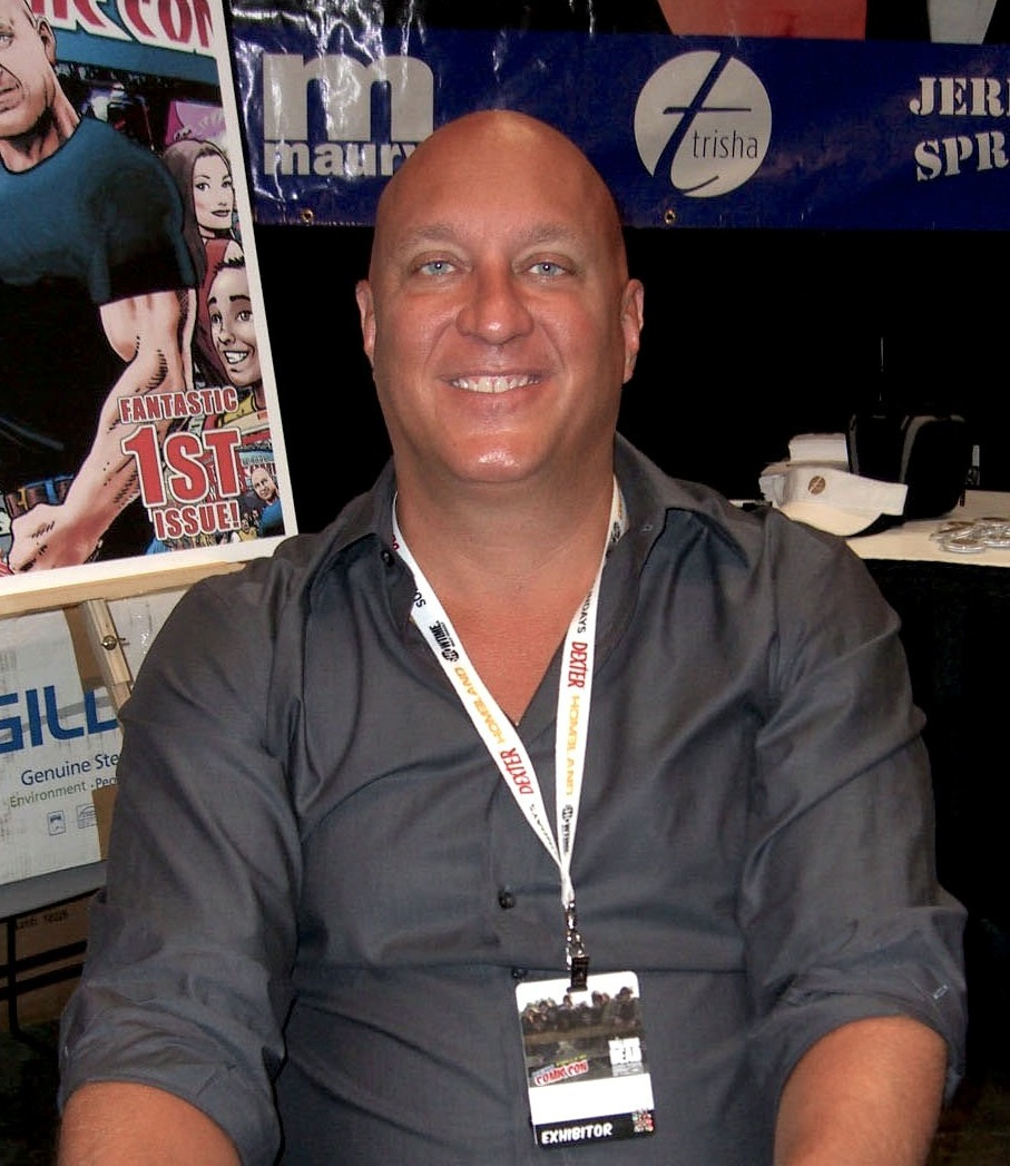 Television personality Steve Wilkos on Day 4 of the 2012 New York Comic Con, Sunday October 14, 2012 at the Jacob K. Javits Convention Center in Manhattan. This photo was created by Luigi Novi. It is not in the public domain, and use of this file outside of the licensing terms is a copyright violation.